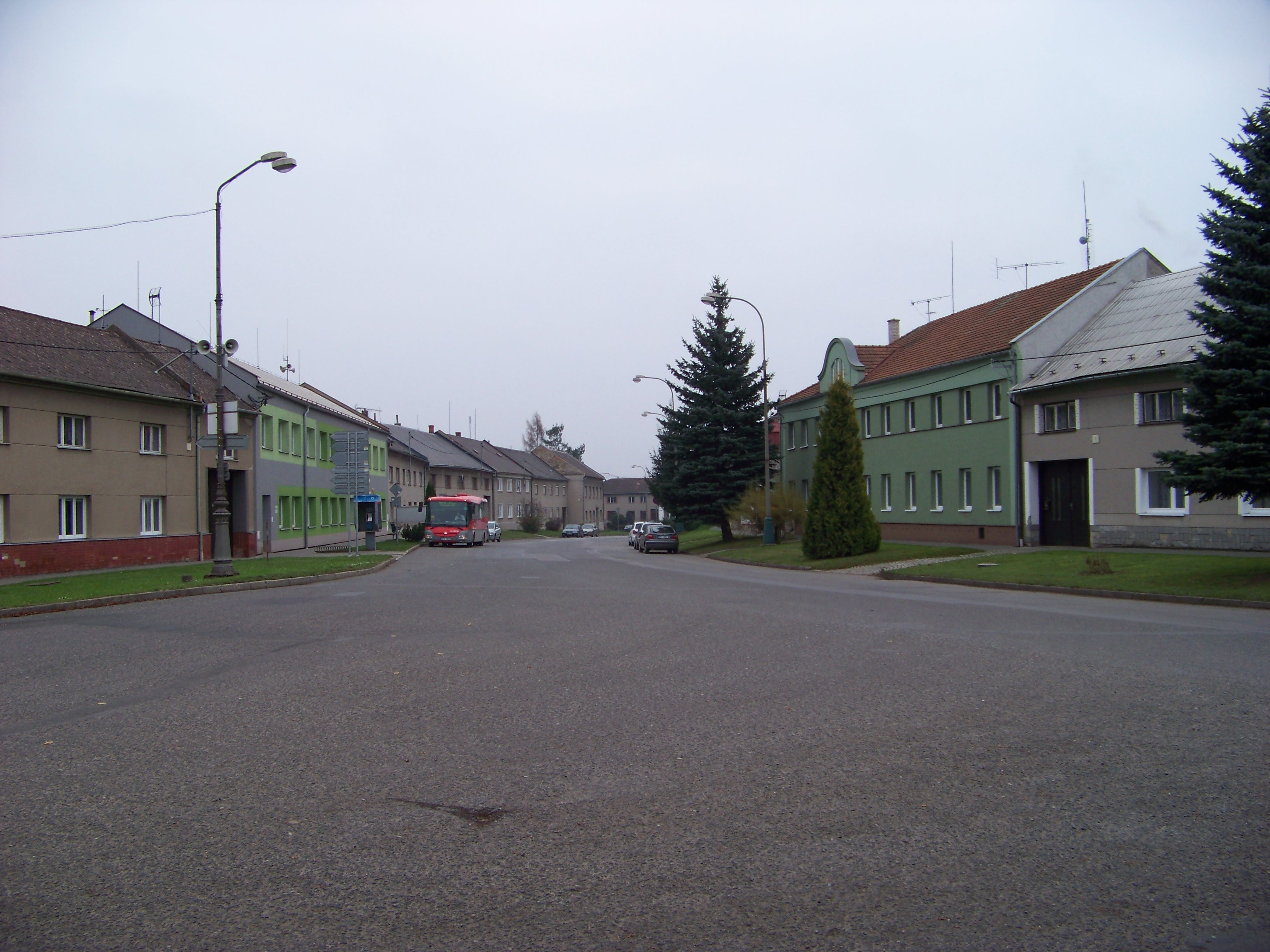 Olšany u Prostějova, Prostějov District, Olomouc Region, Czech Republic.